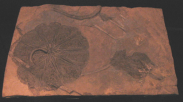 Traumatocrinus species crinoid fossil.